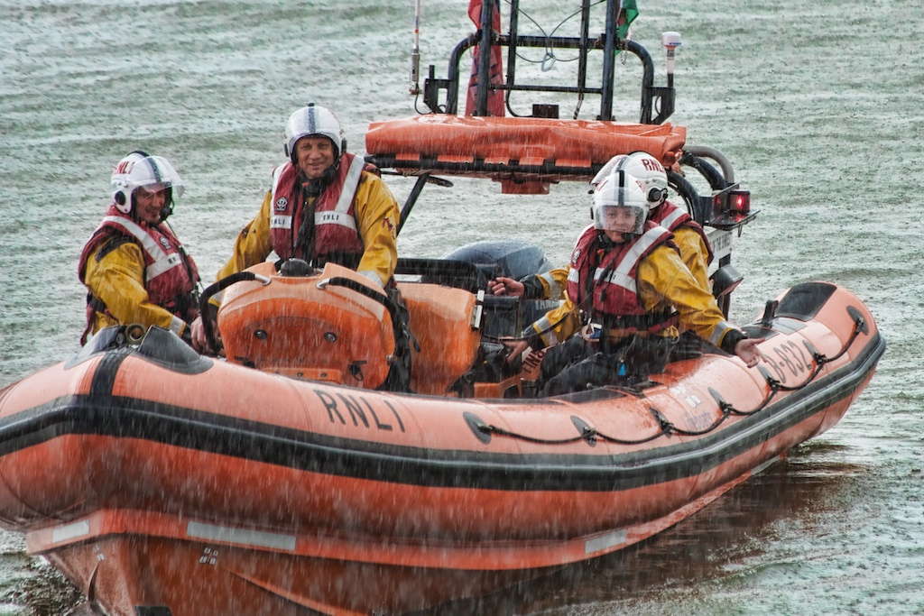 "Rose of the Shires" lifeboat, Porthcawl Station in a downpour.